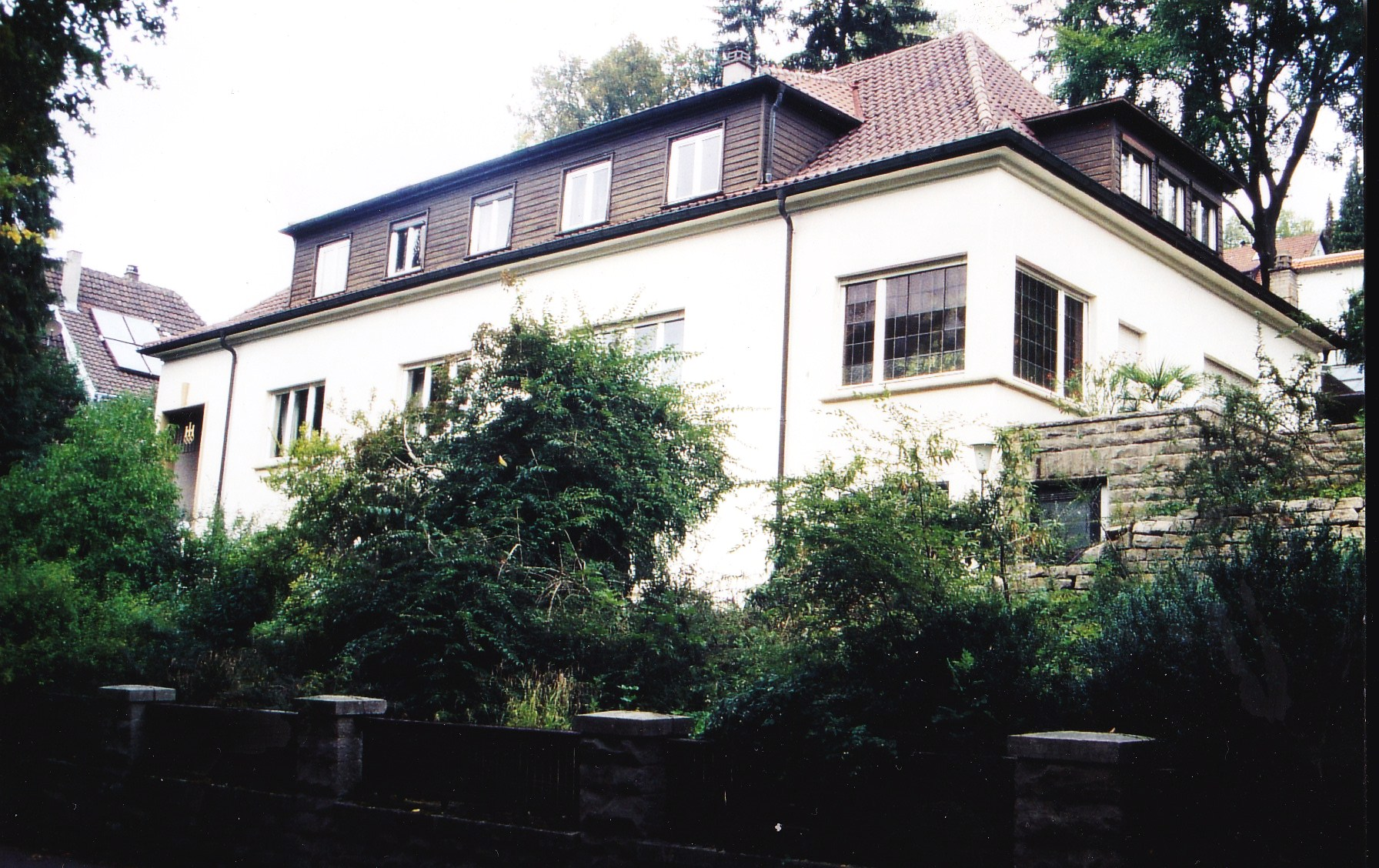 The in 1935 built lodging-house of Julius Hakenmüller (born 1888), the oldest son and successor of the foundator of the enterprise Johannes Hakenmüller at the Panoramastraße in 72461 Albstadt-Tailfingen. Over the entrance the builder installed the five olympic circles beside the initials of his name. At that time the greatest lodging-house in town, it was the refugee for the Nobelprizewinner Otto Hahn, director of the from Berlin outsourced Kaiser Wilhelm Institute for Chemistry, and his wife Edith from 1944 up to his arrest in april 1945.